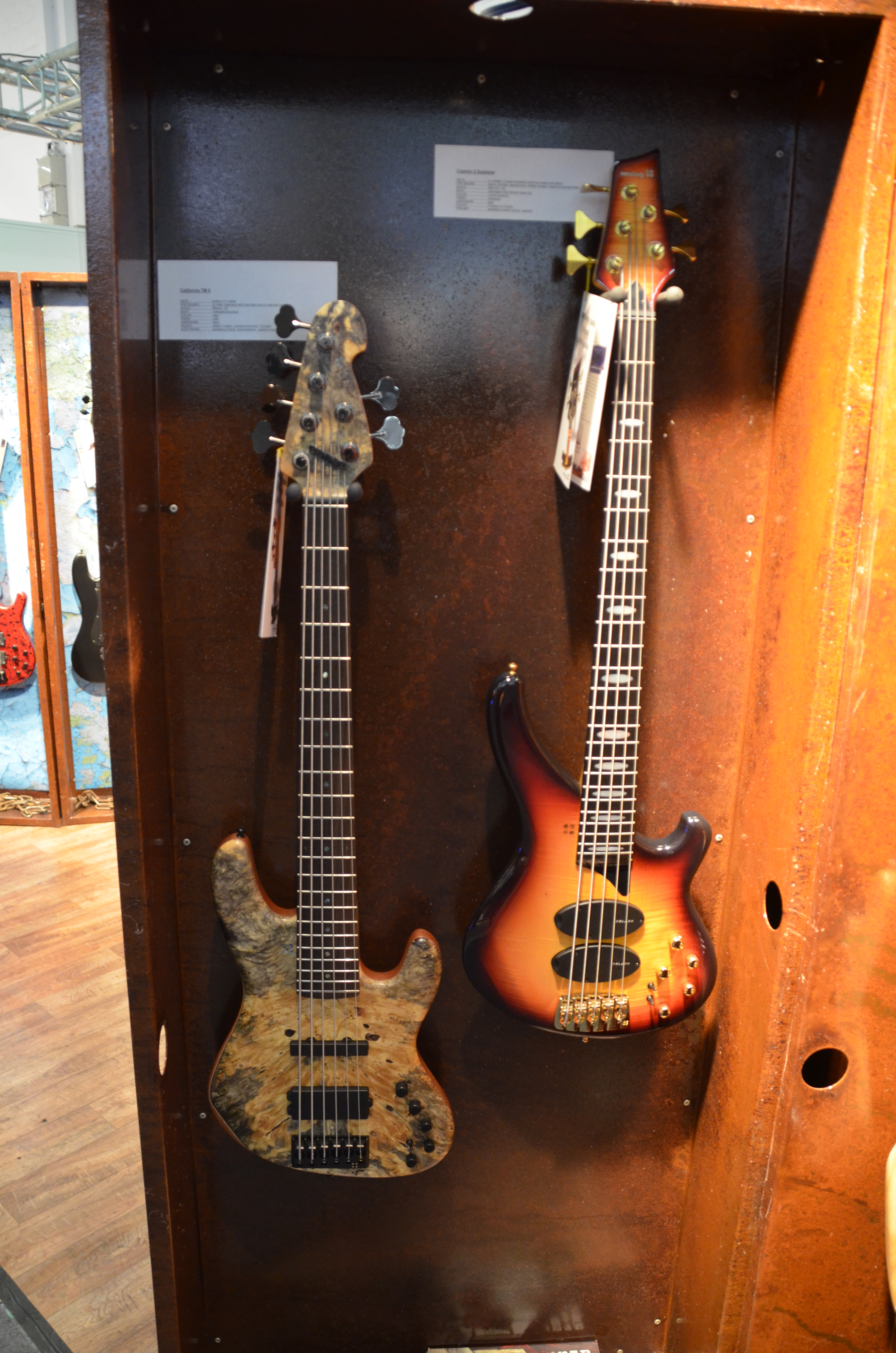 sandberg California TM6 (Delano J-style & powerhumbucker) sandberg Custom 5 string (2× Delano X-tender pickups)